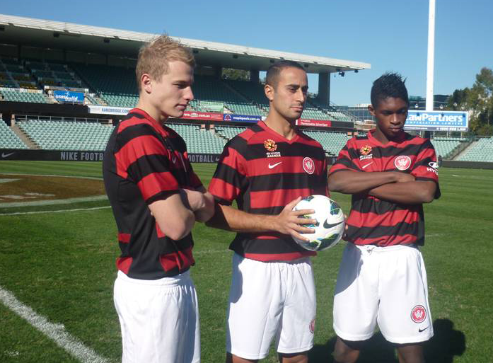 The three signings for Western Sydney Wanderers in a photo taken at Parramatta Stadium on behalf of